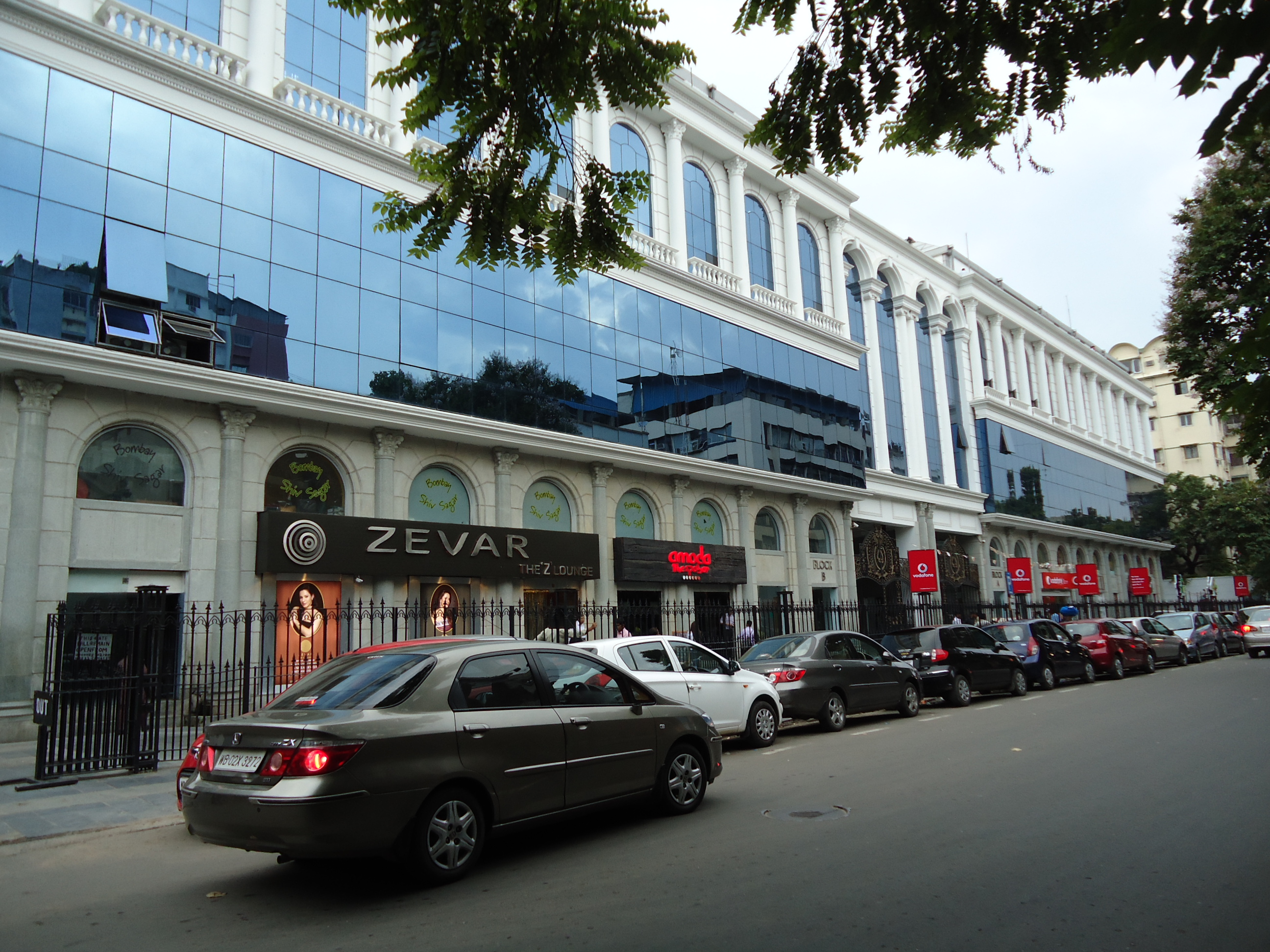 22 Camac St Mall, Kolkata